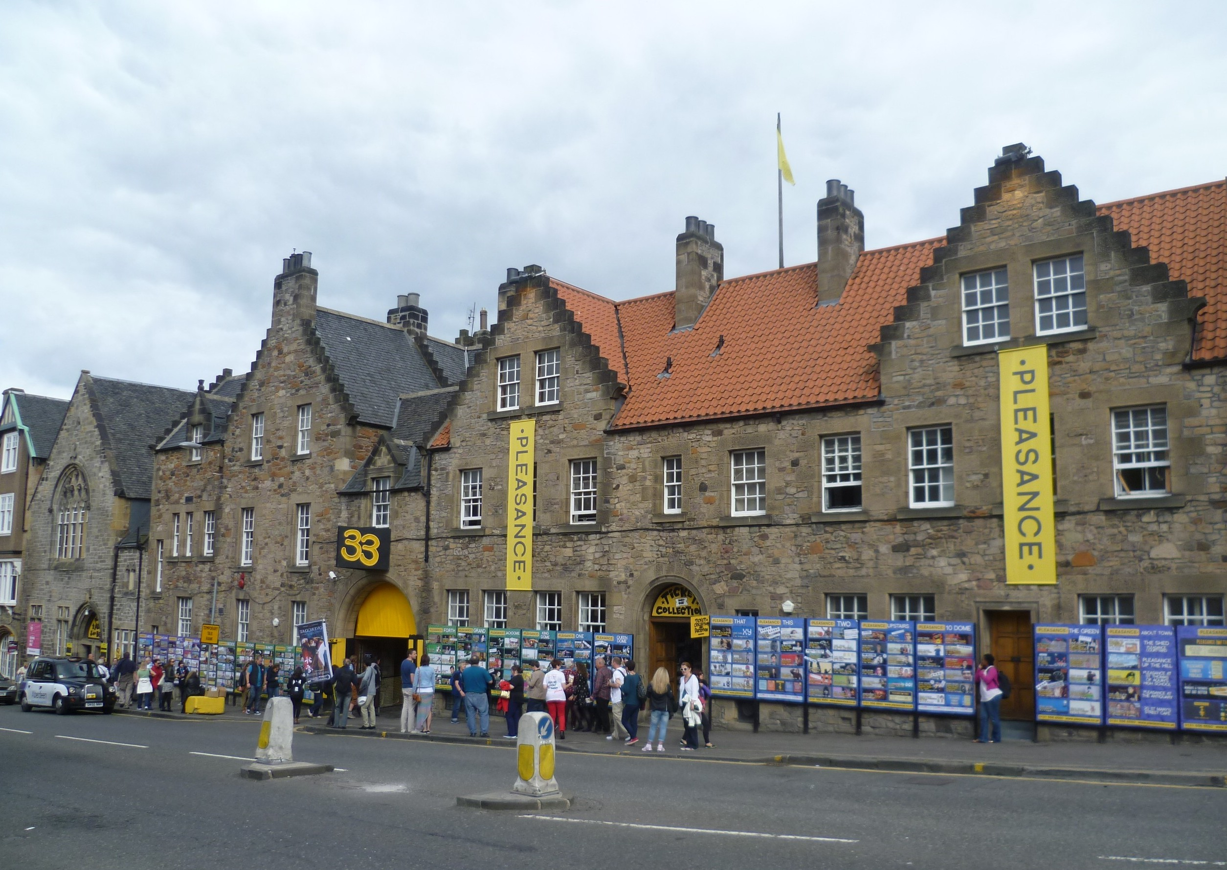 The Pleasance Courtyard Festival venue, 2013